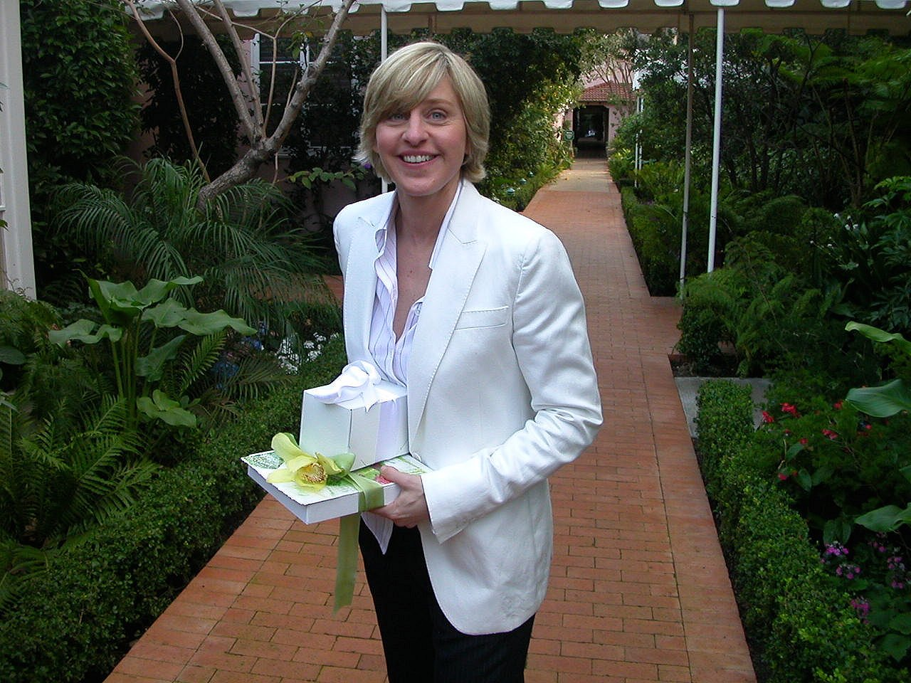 Ellen DeGeneres at Hotel Bel Air in Los Angeles attending Oprah's birthday party